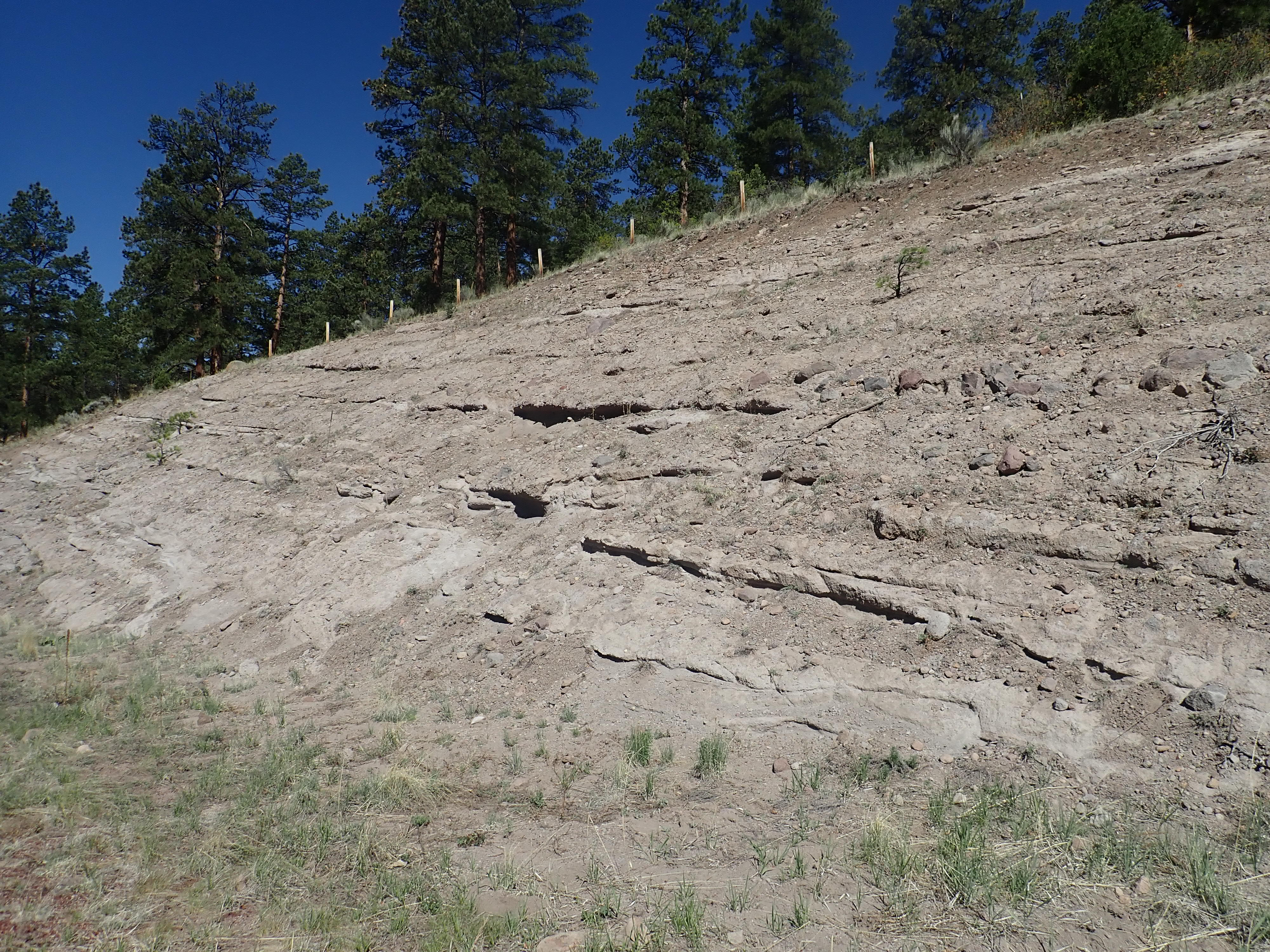 This image shows a road cut exposing beds of the Los Pinos Formation. This is a late Oligocene to late Miocene formation composed of sediments eroded off the San Juan Mountains and other nearby high terrain. Tusas Mountains, New Mexico, USA.